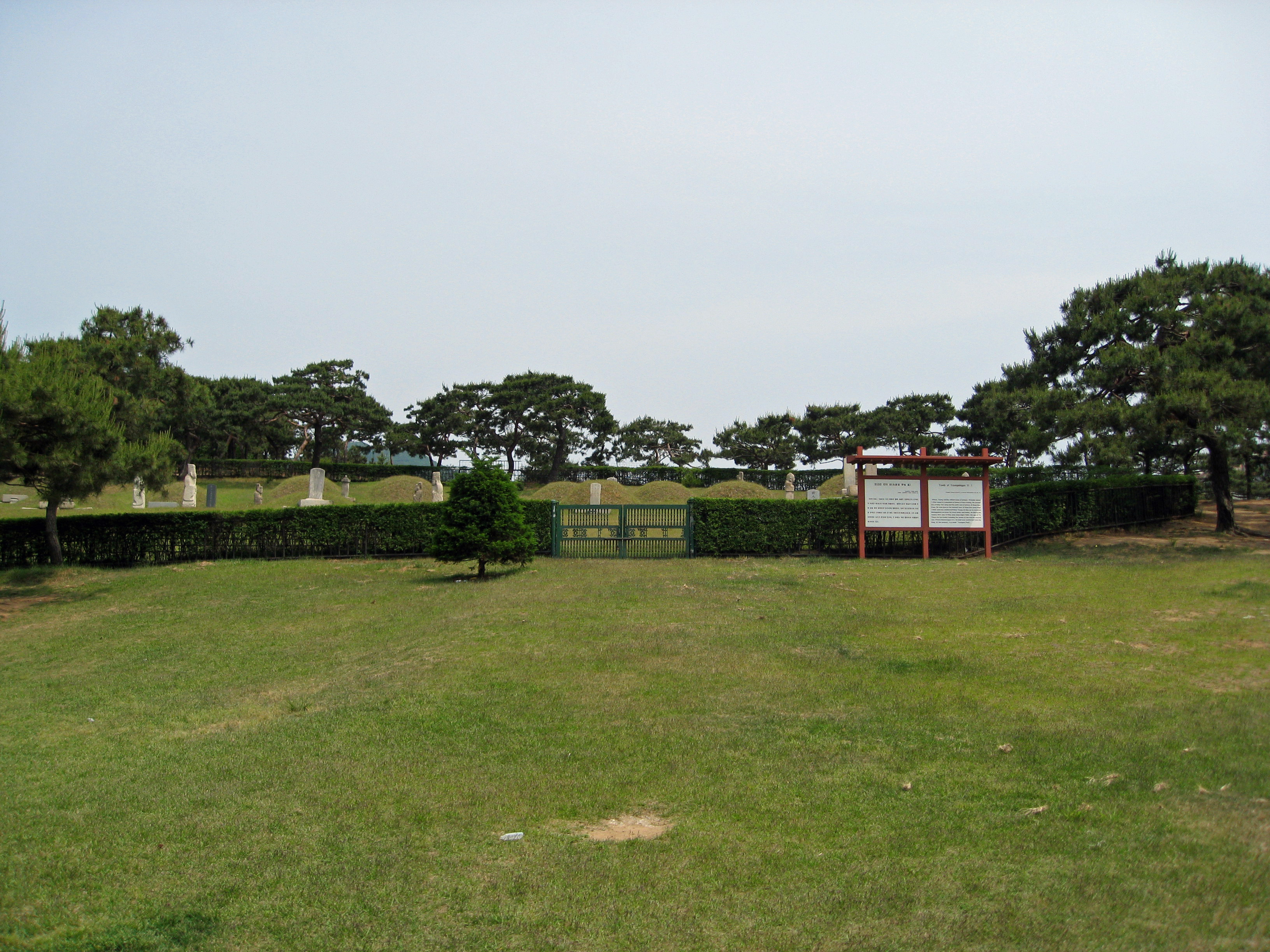 Tomb of Youngshingun Yi I in Gyeyang District, Incheon, South Korea